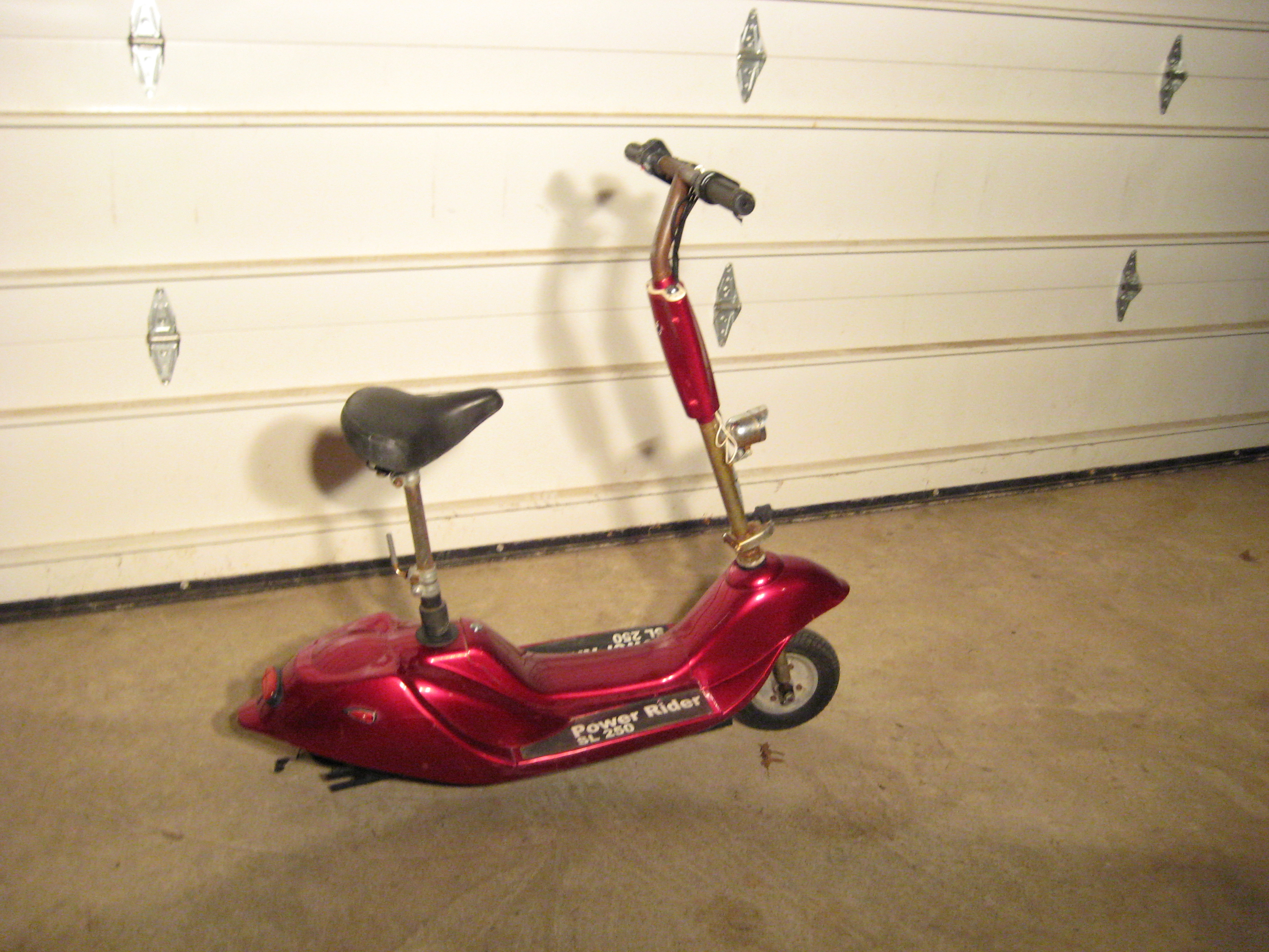 My power rider Sl-250